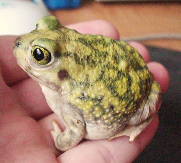 The north american toad Scaphiopus couchii